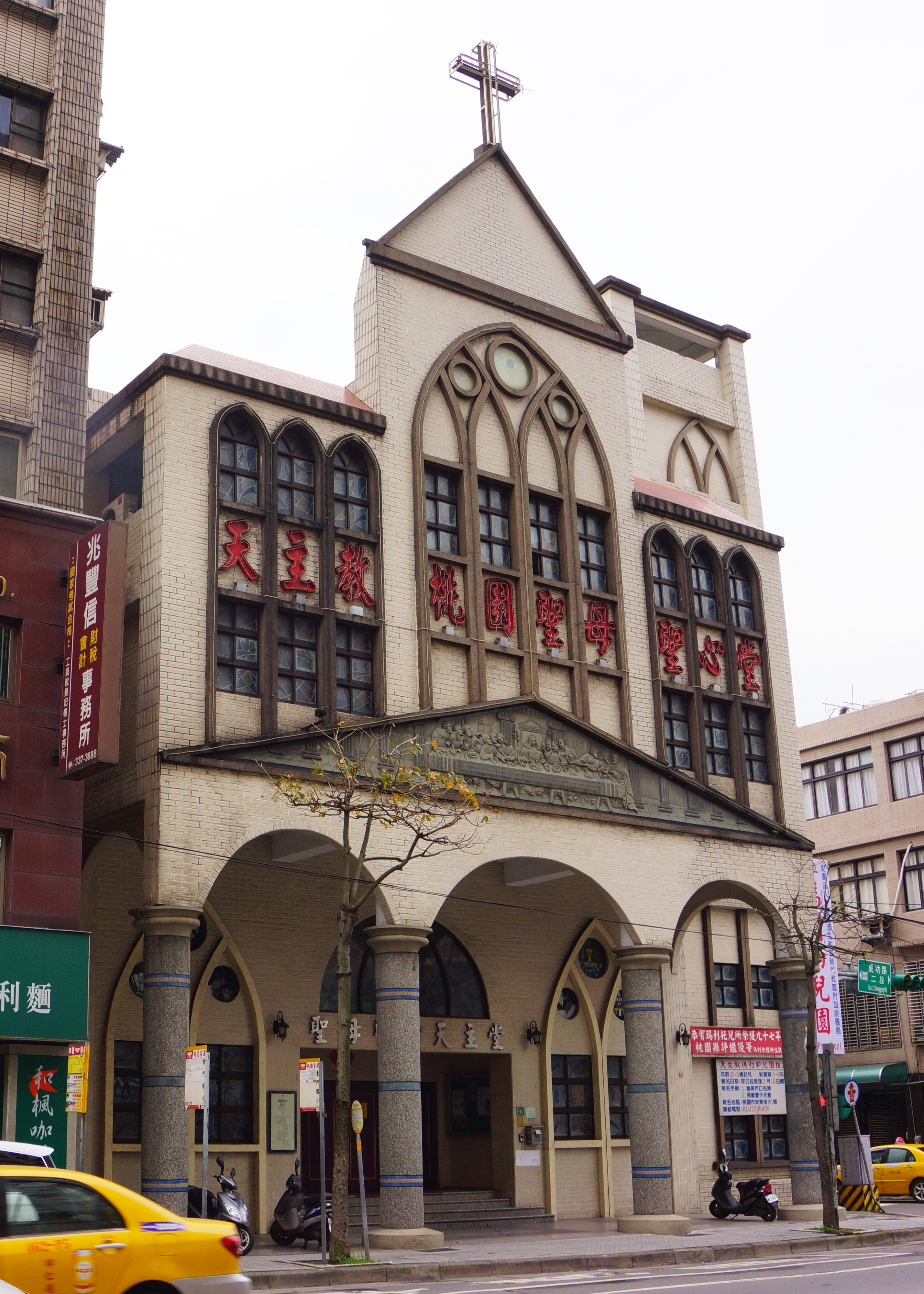 桃園聖母聖心堂 Taoyuan Catholic Church